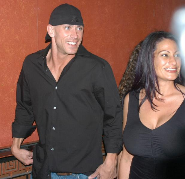 April 5 2007: XRCO Awards 2007.